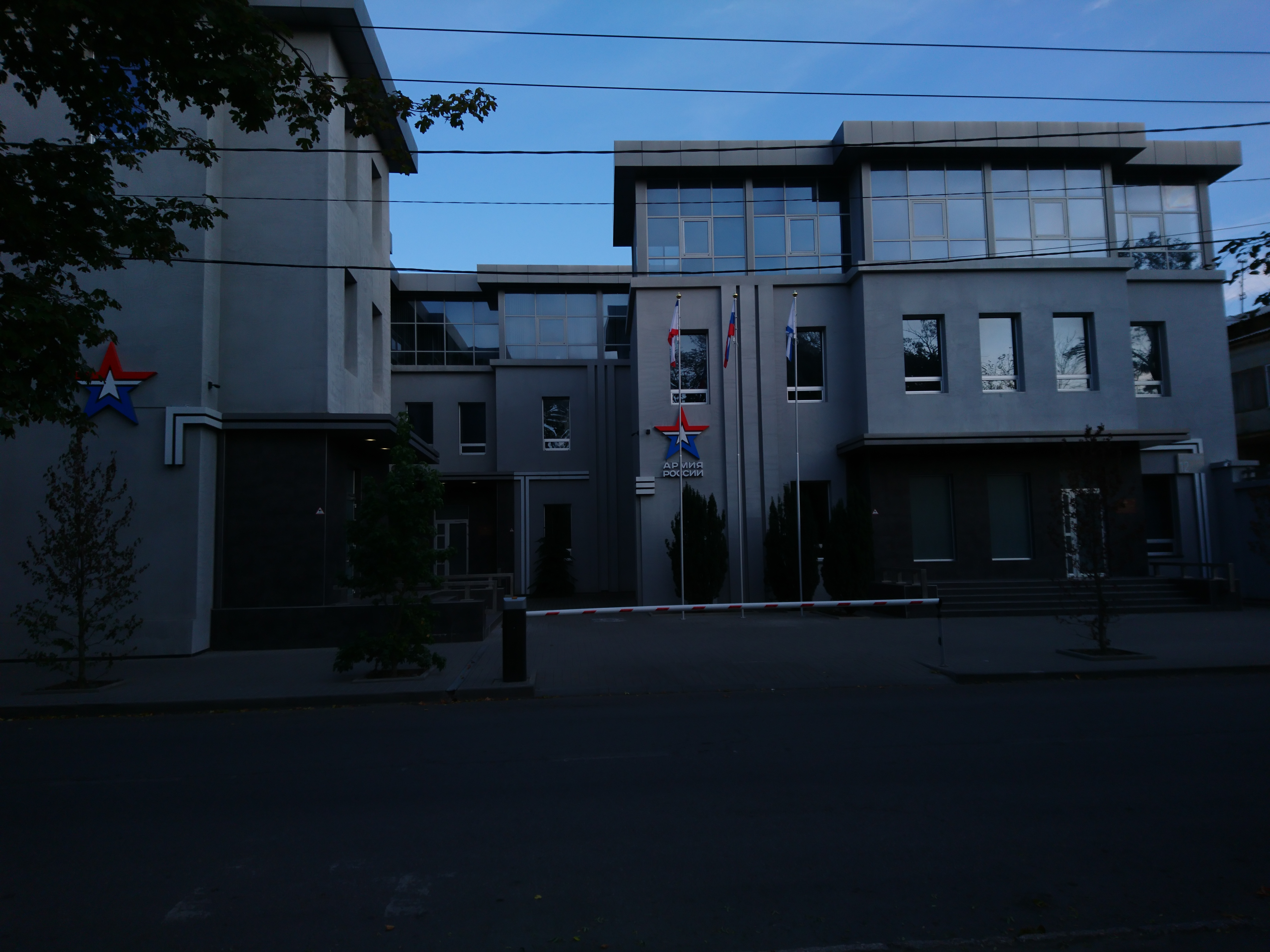 Southern Military district Russia in Republic of Crimea